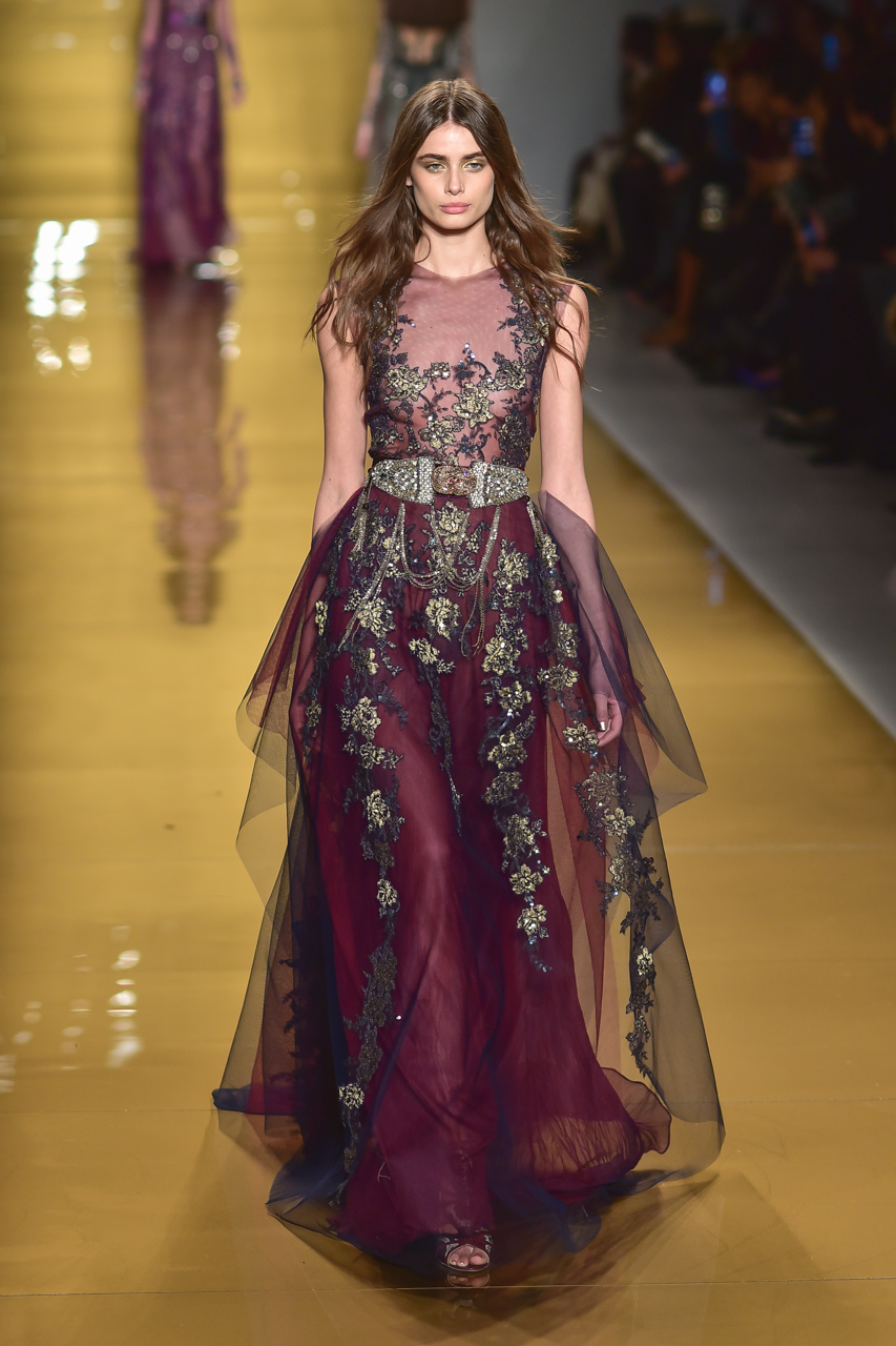 American model Taylor Marie Hill on the Reem Acra FW 15 Show